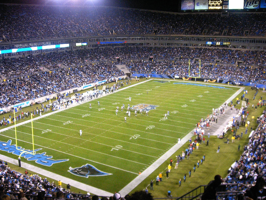 Deshaun Foster gets set to run for enough yards to put my Fantasy team over the top for this week's matchup - great to watch him do it person. Monday Night Football, Charlotte, NC.